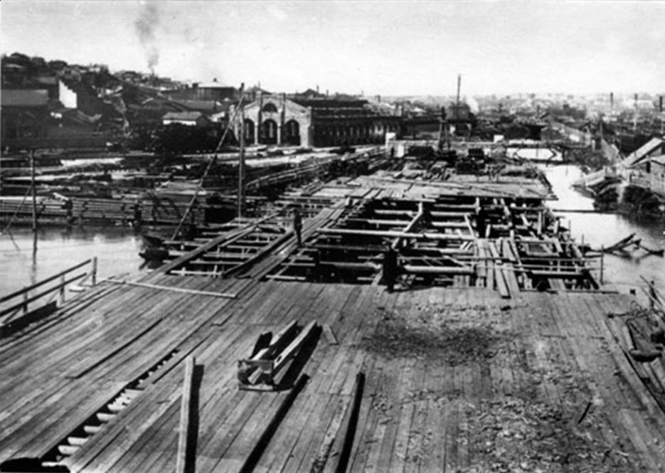 Building "American" bridge in Rostov